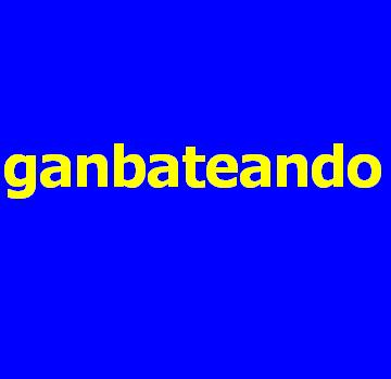 Word in Japoñol.